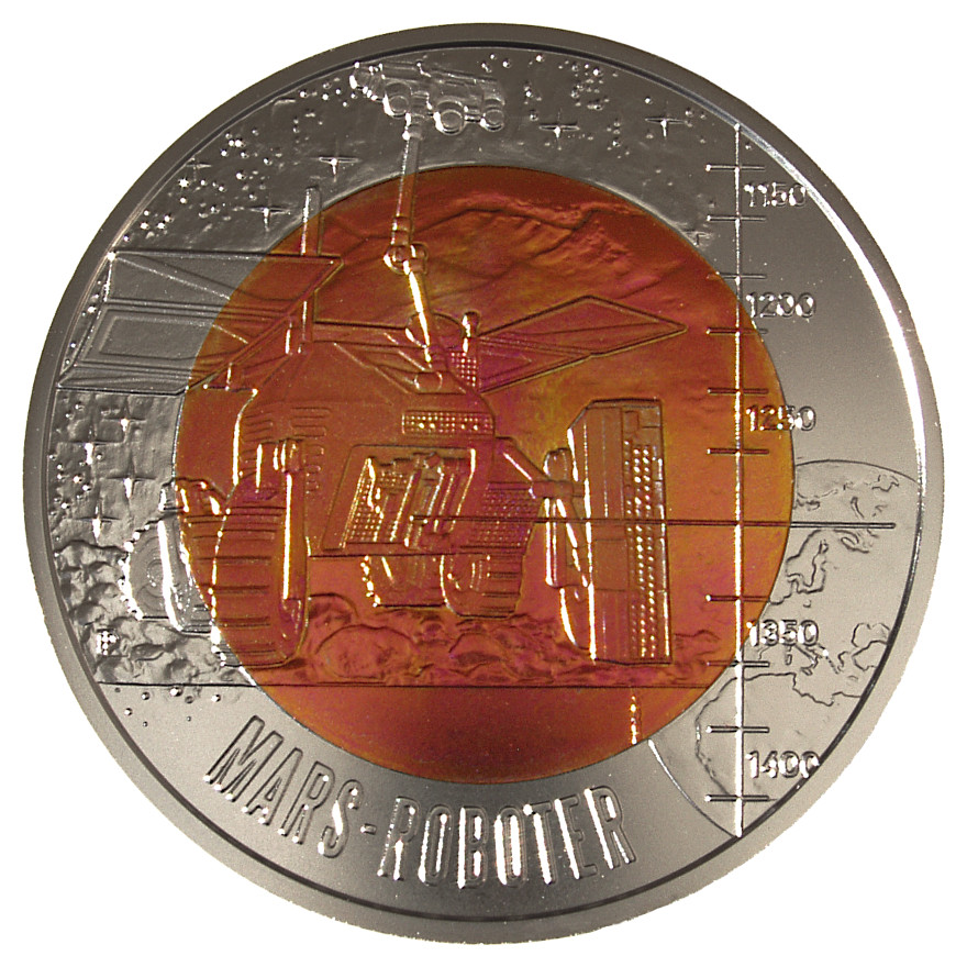 2011 robotics